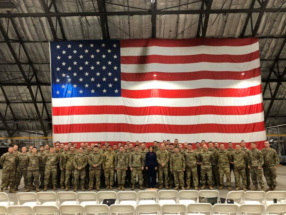 Hartzler visiting the United States Army installation at Fort Belvoir, Virginia